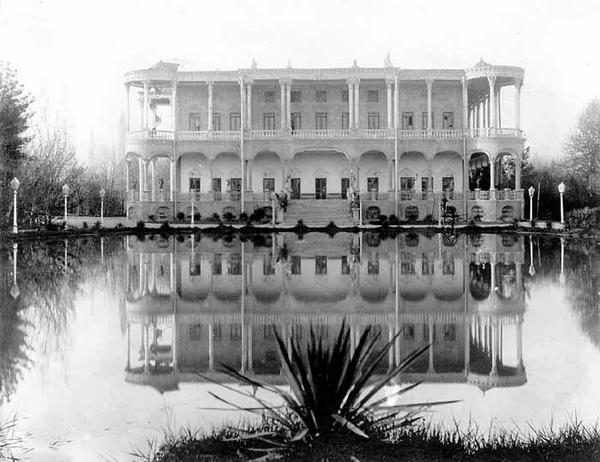 Atabak Palaca